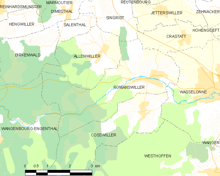 Map of French municipality